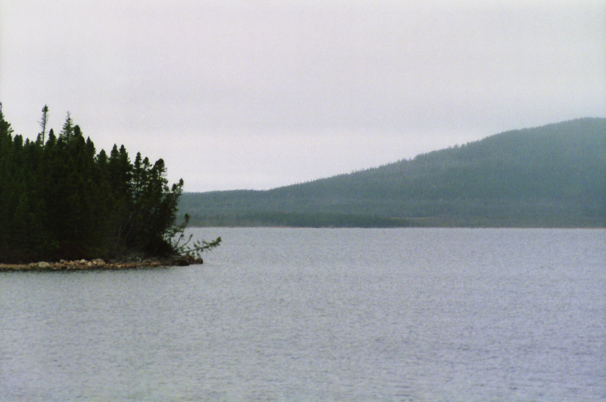 Buchans Lake, Newfoundland, Canada